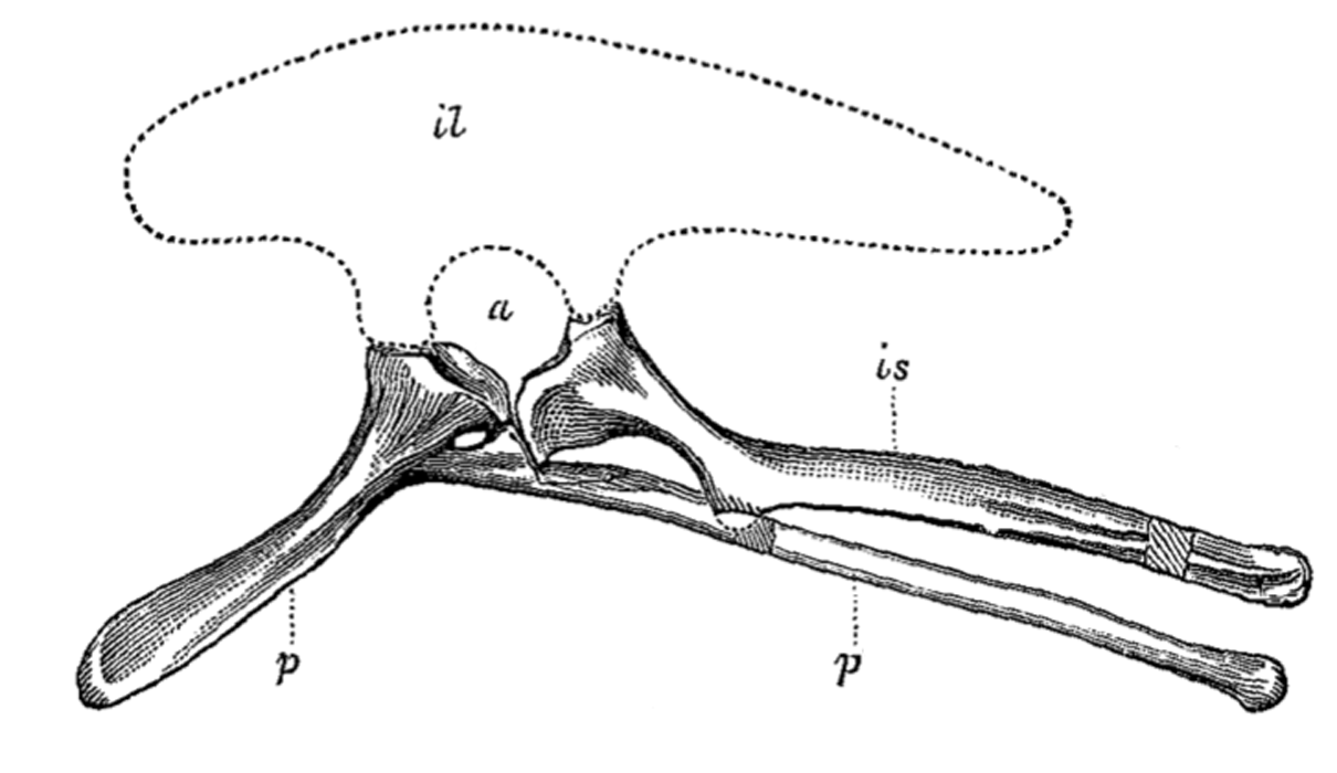 Pelvis of Laosaurus altus (now Dryosaurus) Marsh; seen from the left. Il: Ilium, Is: Ischium, P: Pubis, A: Acetabulum.